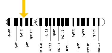 ESCO2 gene. Cytogenetic Location: 8p21.1 The ESCO2 gene is located on the short (p) arm of chromosome 8 at position 21.1. More precisely, the ESCO2 gene is located from base pair 27,771,476 to base pair 27,812,395 on chromosome 8.